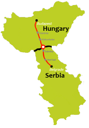 Map detailing route of high speed rail from Belgrade to Budapest